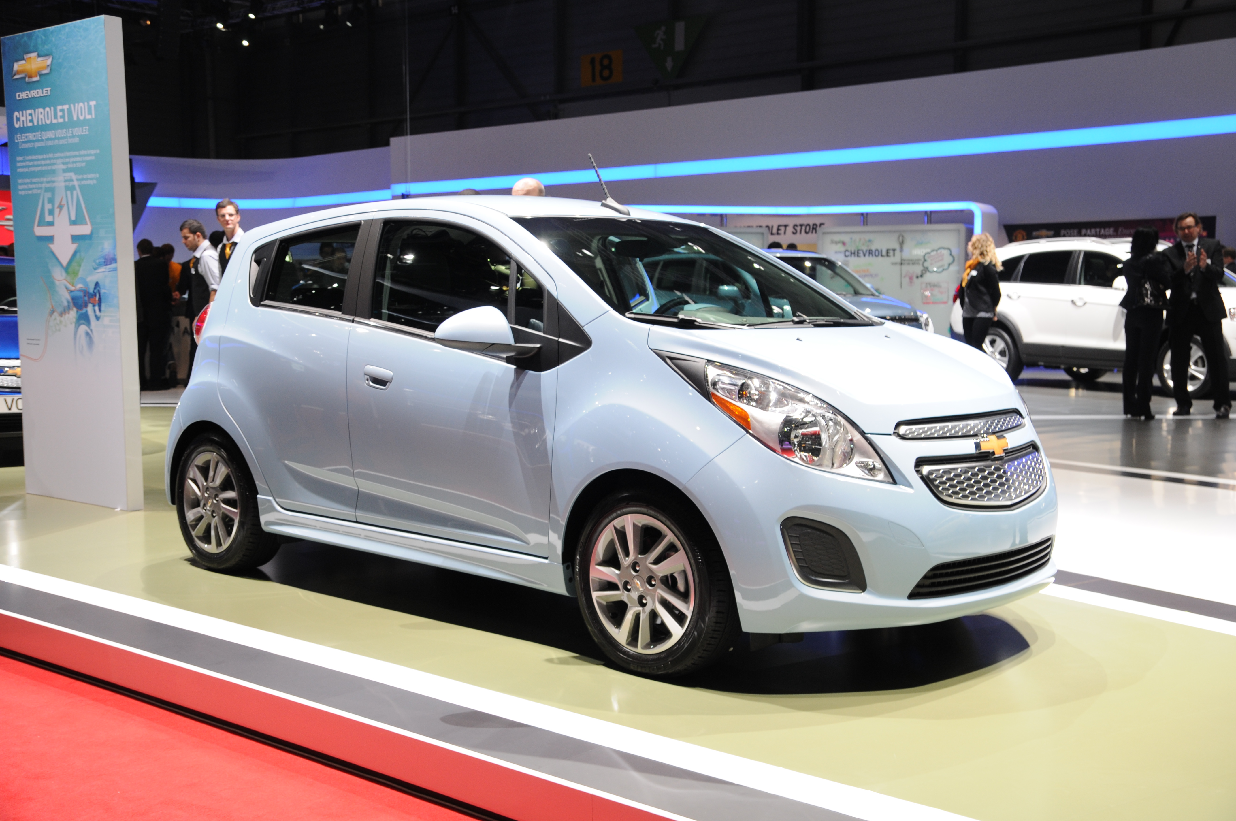 Production version of the Chevrolet Spark EV exhibited at the Geneva Motor Show 2013 (photos taken on the first press day)